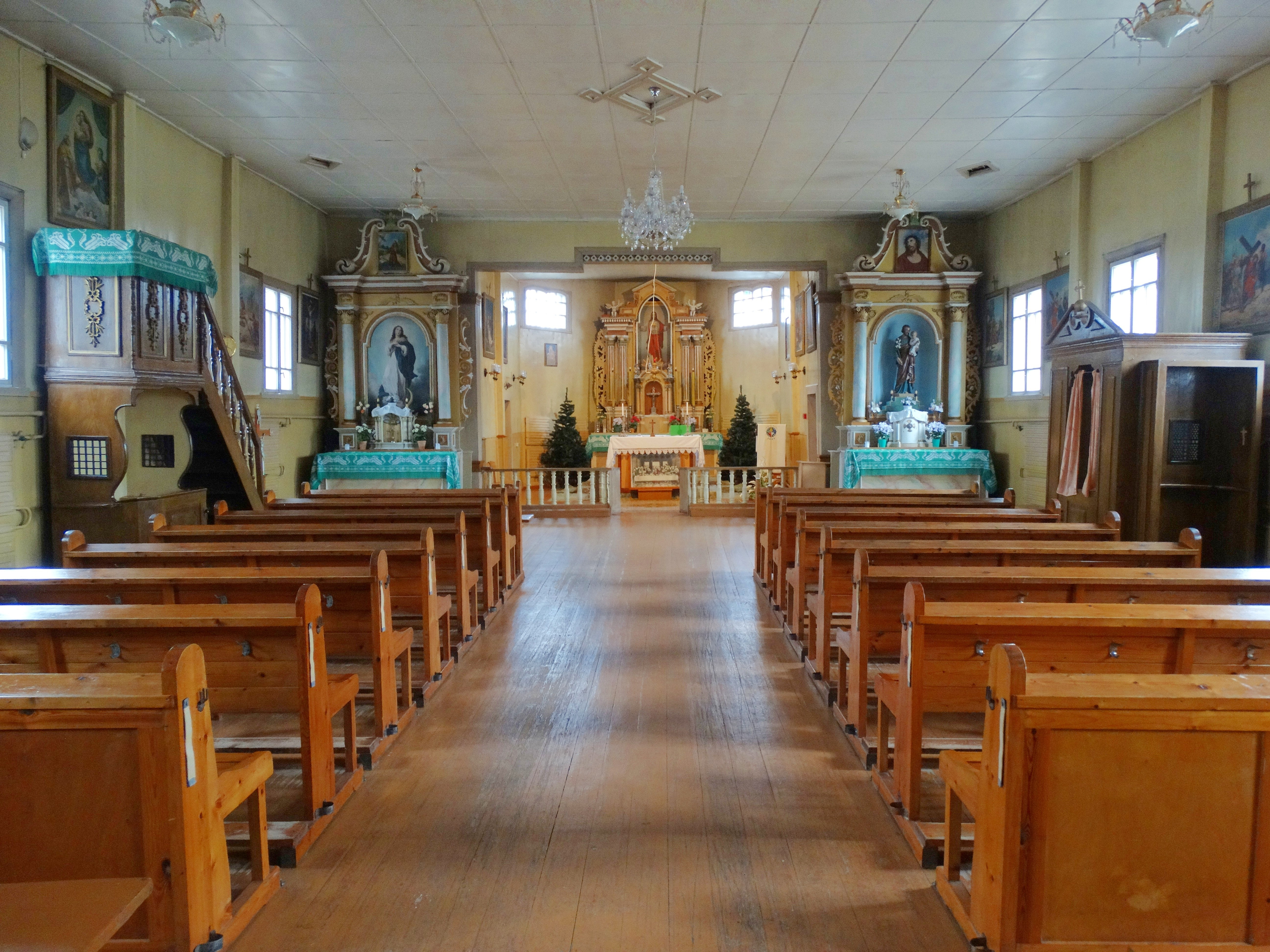 Church of the Sacred Heart of Jesus (old), Pažėrai, Kaunas District. Lithuania